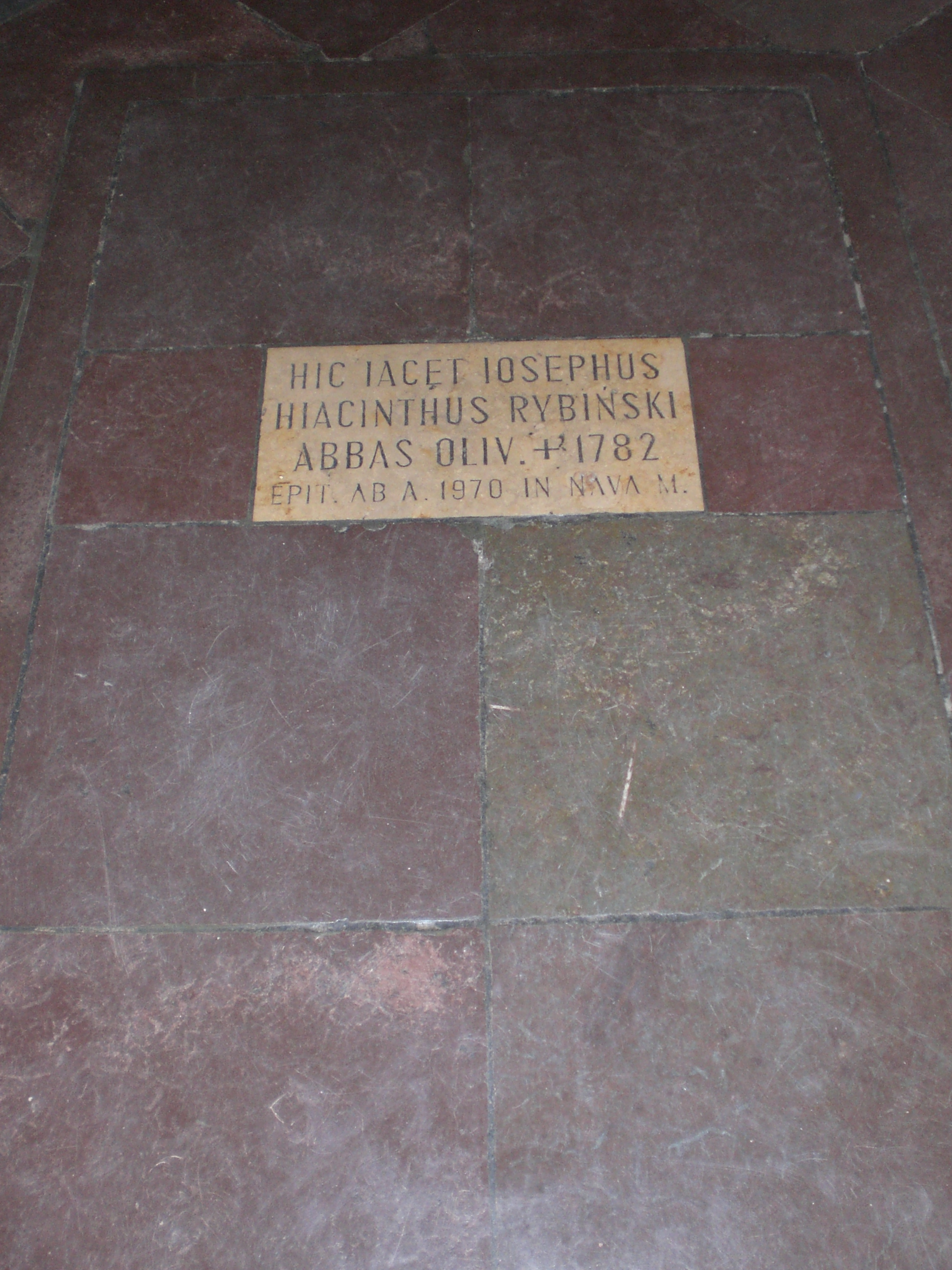 Jacek Rybiński grave slab in Oliwa Cathedral in Gdańsk (Poland).